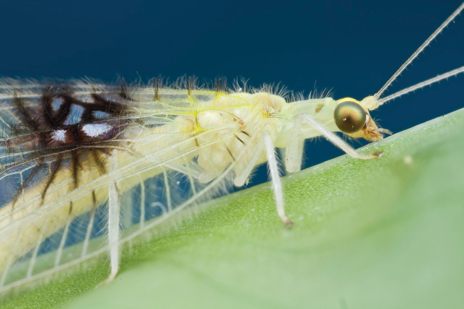 Semachrysa jade sp. n. female habitus, specimen that was originally photographed and released (Morphbank: 791596). Forewing length: 15.0 mm. Photographer: Guek Hock Ping.